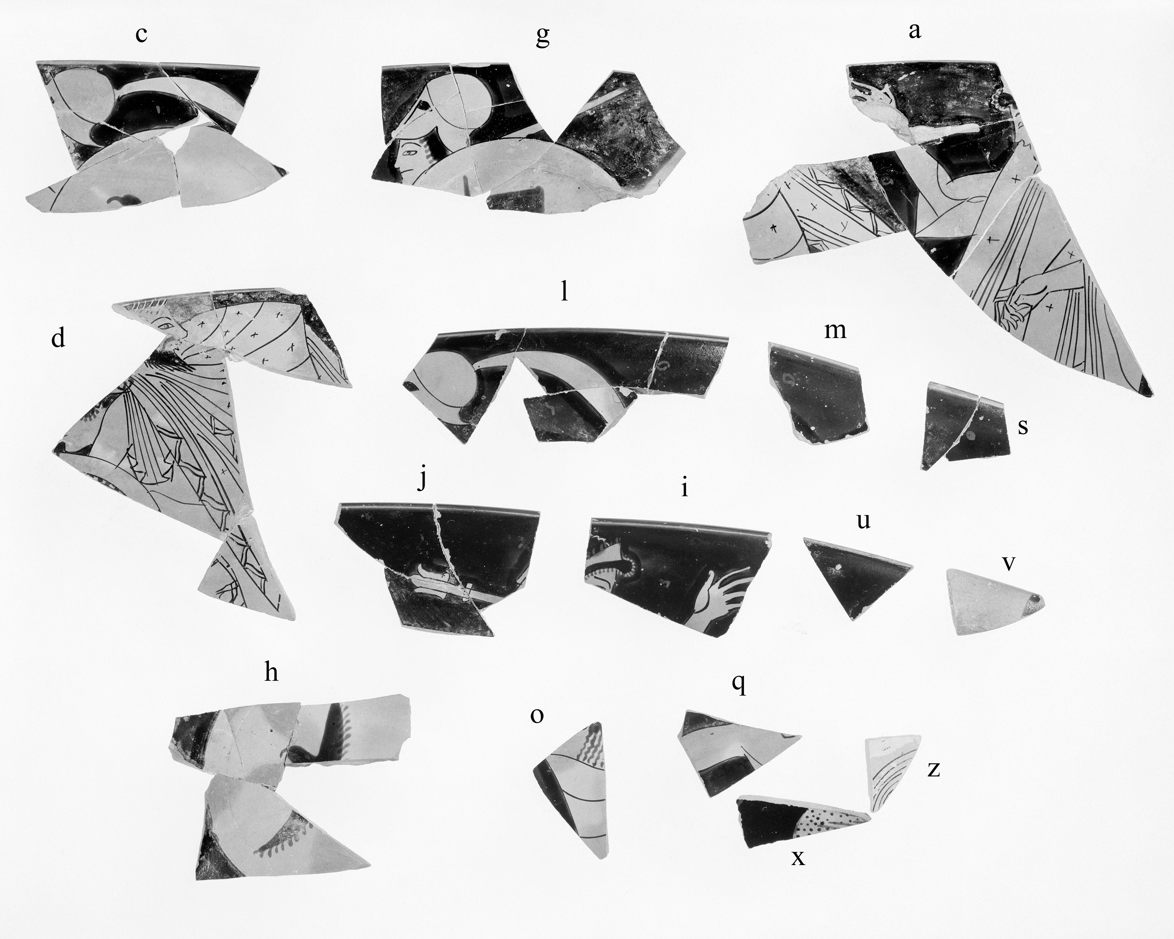 Greek, Attic; Kylix fragments (26); Vases; Creusa, Aeneas carrying his father Anchises, other Trojans.